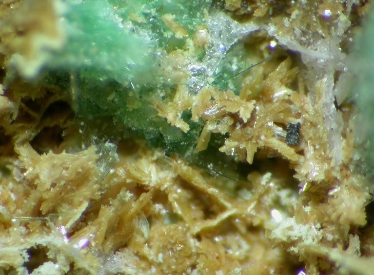 Parsonsite, Torbernite Locality: Pinhal do Souto mine, Tragos, Chãs de Tavares, Mangualde, Viseu District, Portugal Yellow-brown xls of Parsonsite together with Torbernite xls. Field of view 4 mm. Depth of field is achieved with CombineZM. Specimen and photo Leon Hupperichs.